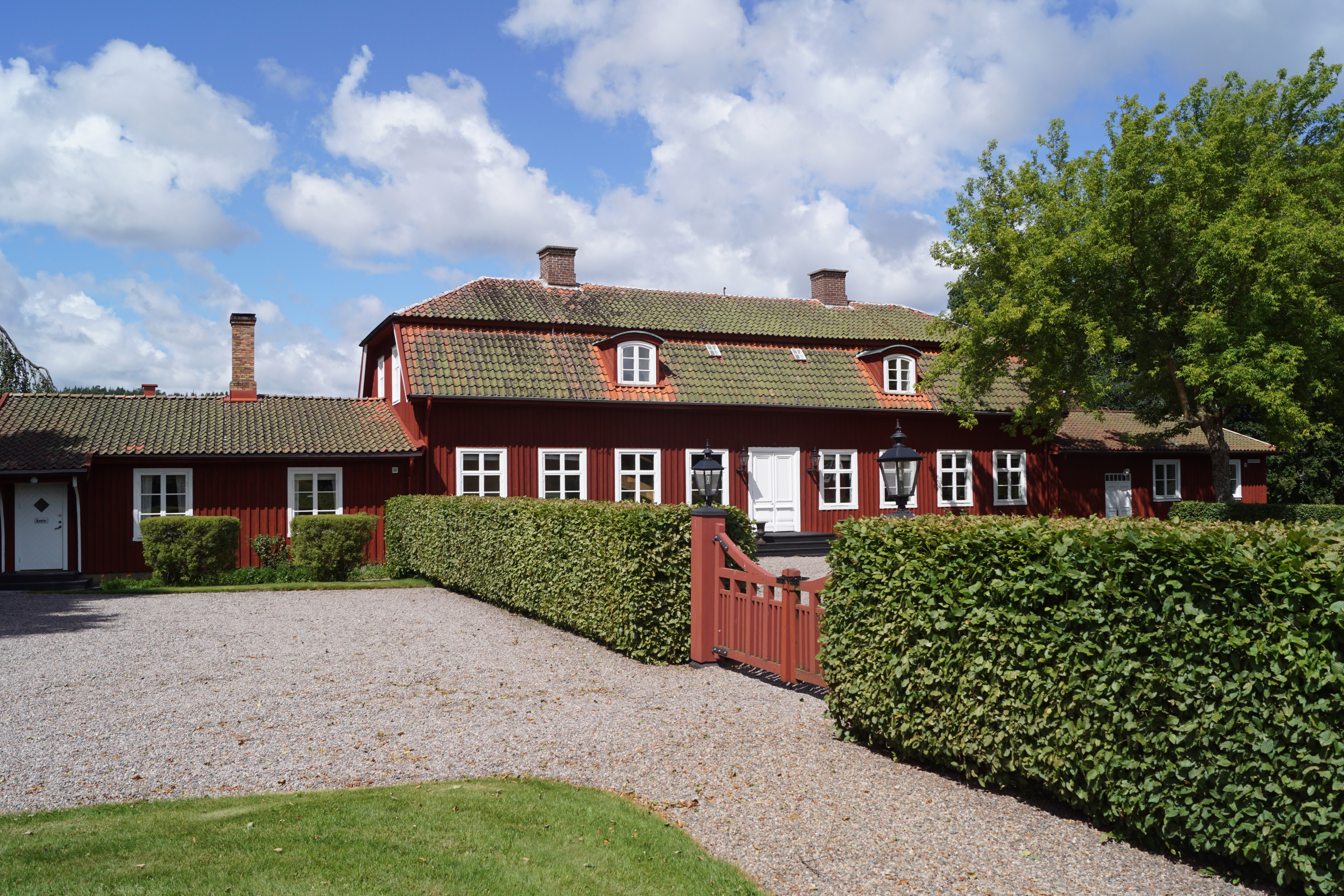 Östad Mansion in Alingsås Municipality, Västra Götaland County, Sweden